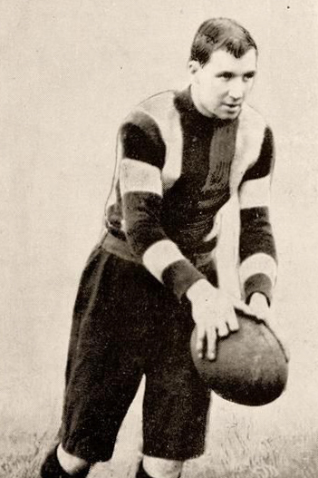 Photograph of Harry Lever from the 1910 Weekly Times Victorian Footballer Postcard Series